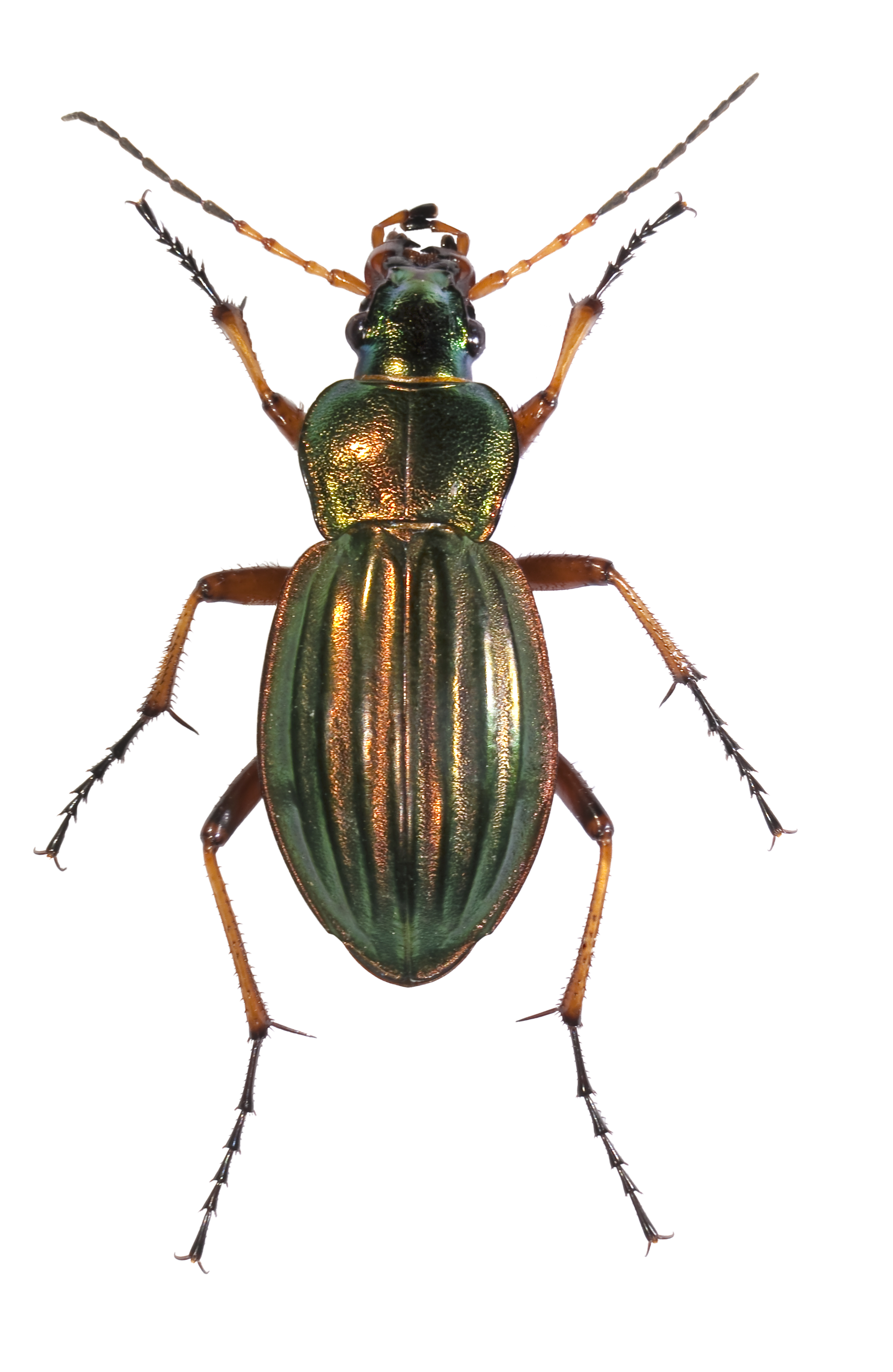 Carabus auratus (golden ground beetle) - dorsal side. France 3.7cm